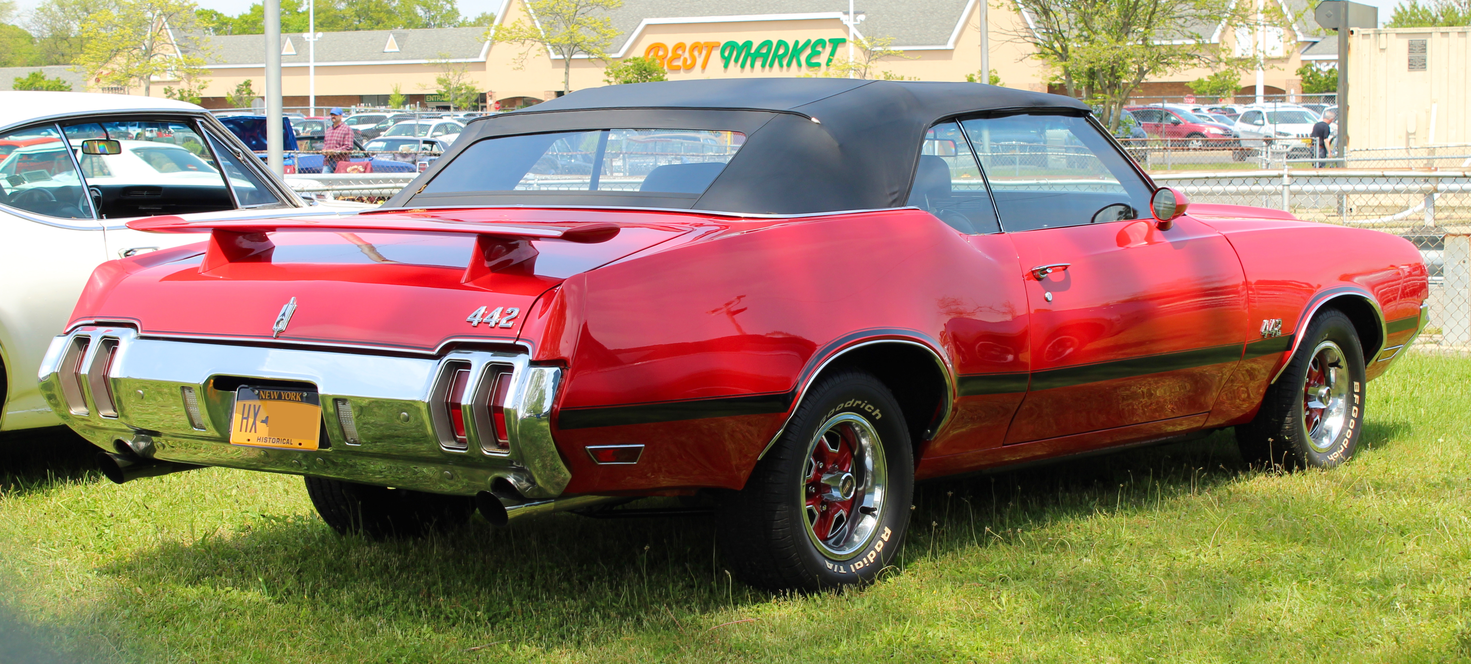 A 1970 Oldsmobile 442 displayed during at a classic car show, in Merrick, New York, USA